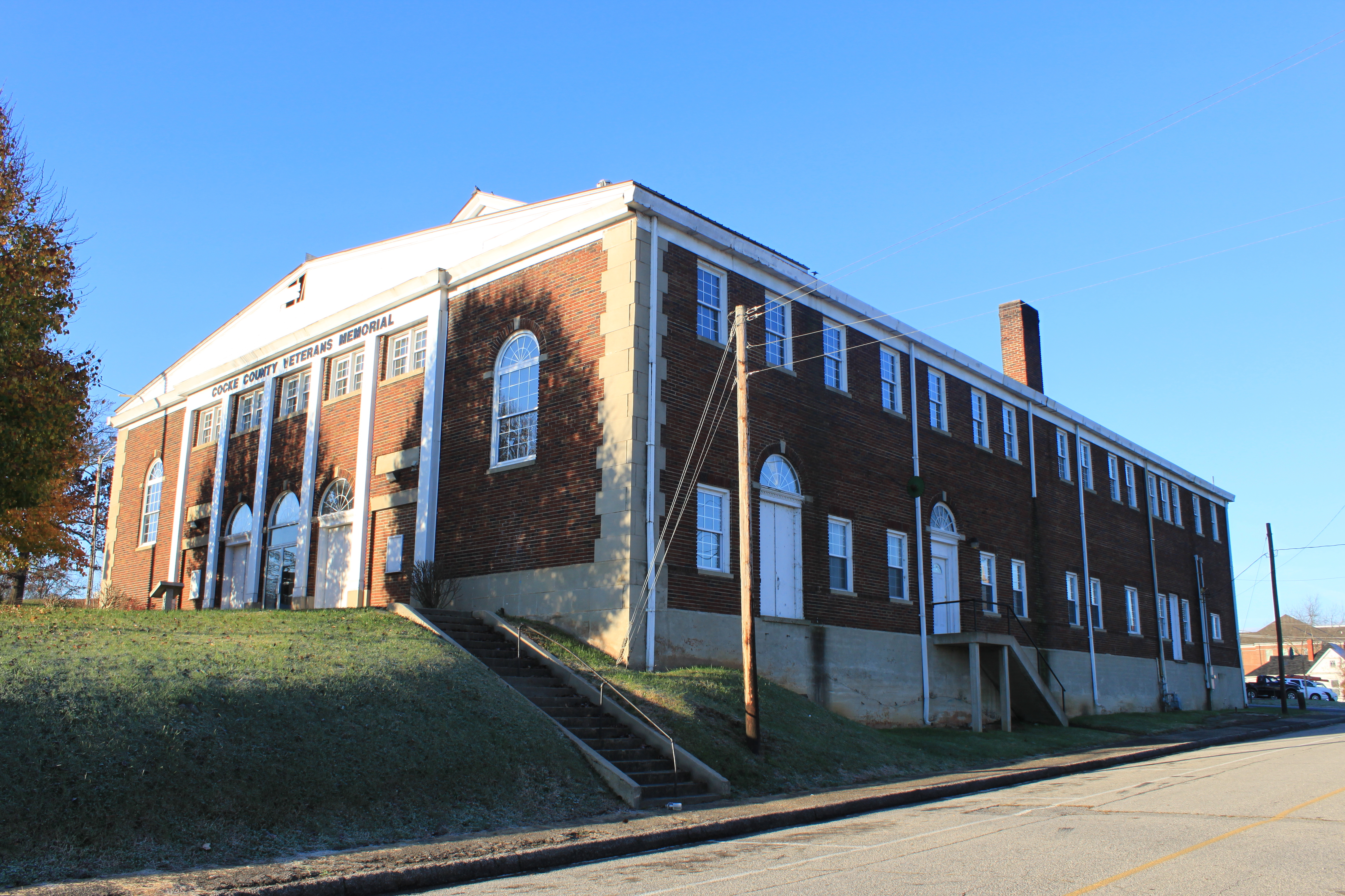 Cocke County Memorial Building, 103 Cosby Highway, Newport, Tennessee. The building is a Registered National Historic Site.